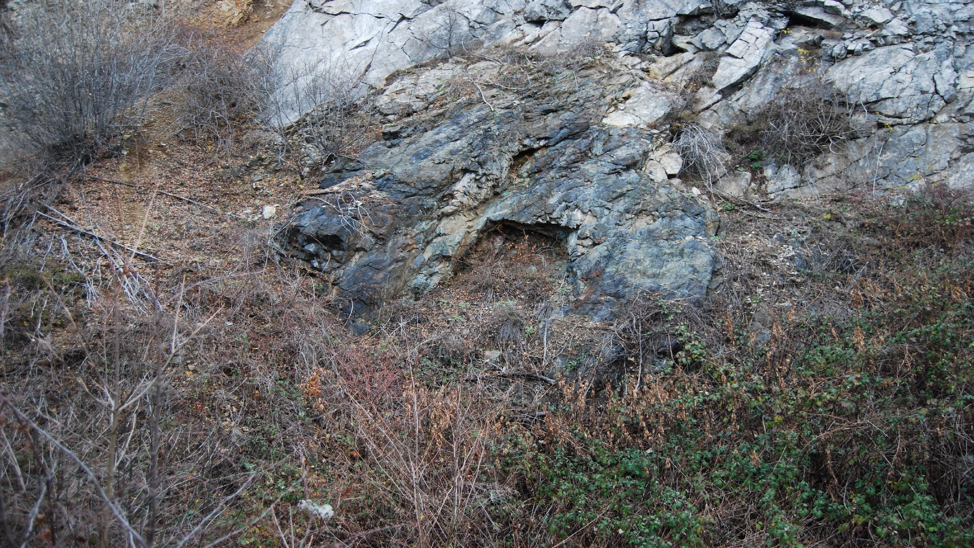 Archeological site Rudna glava- Majdanpek